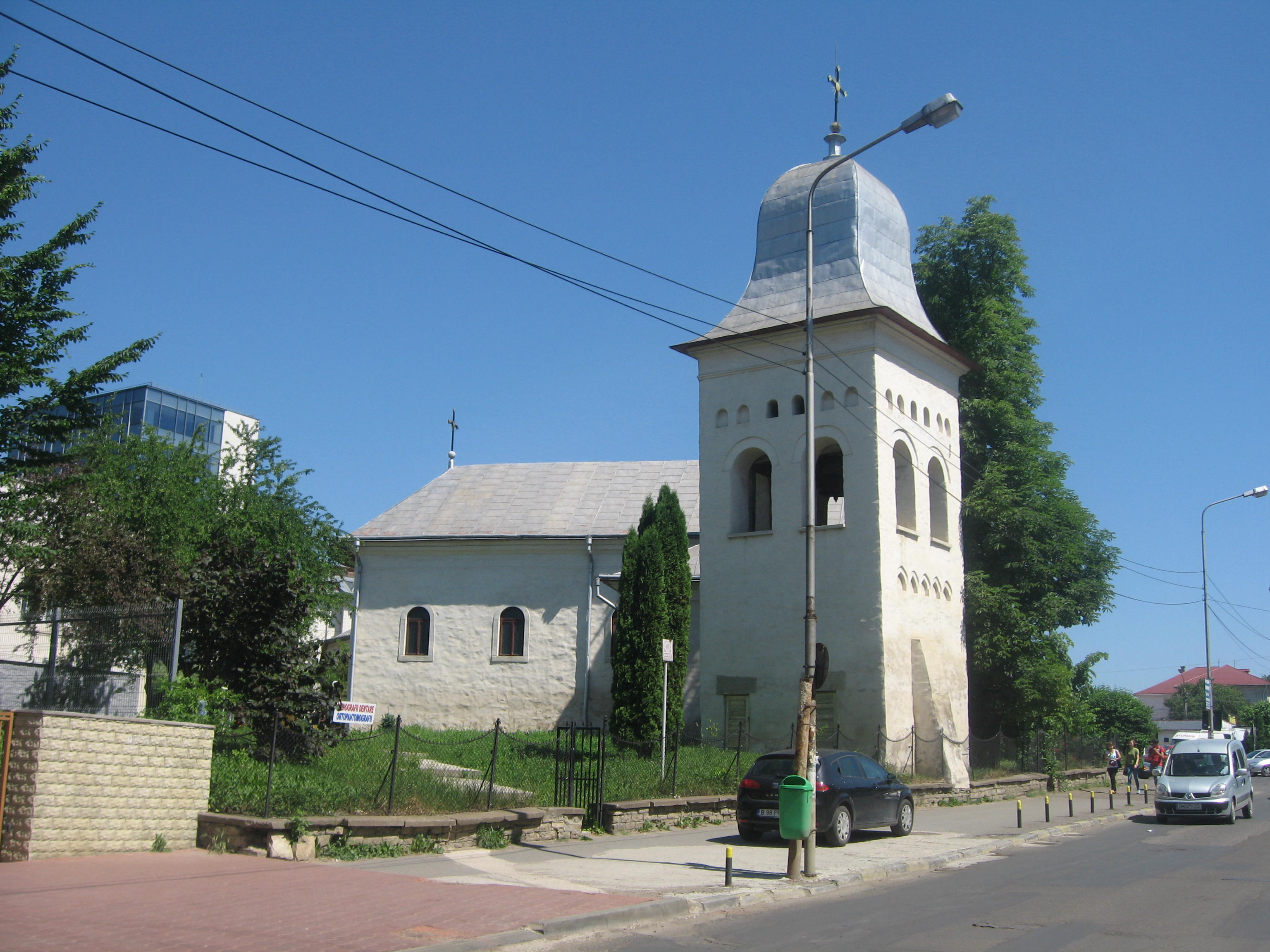 Holy Cross Armenian Church in Suceava.